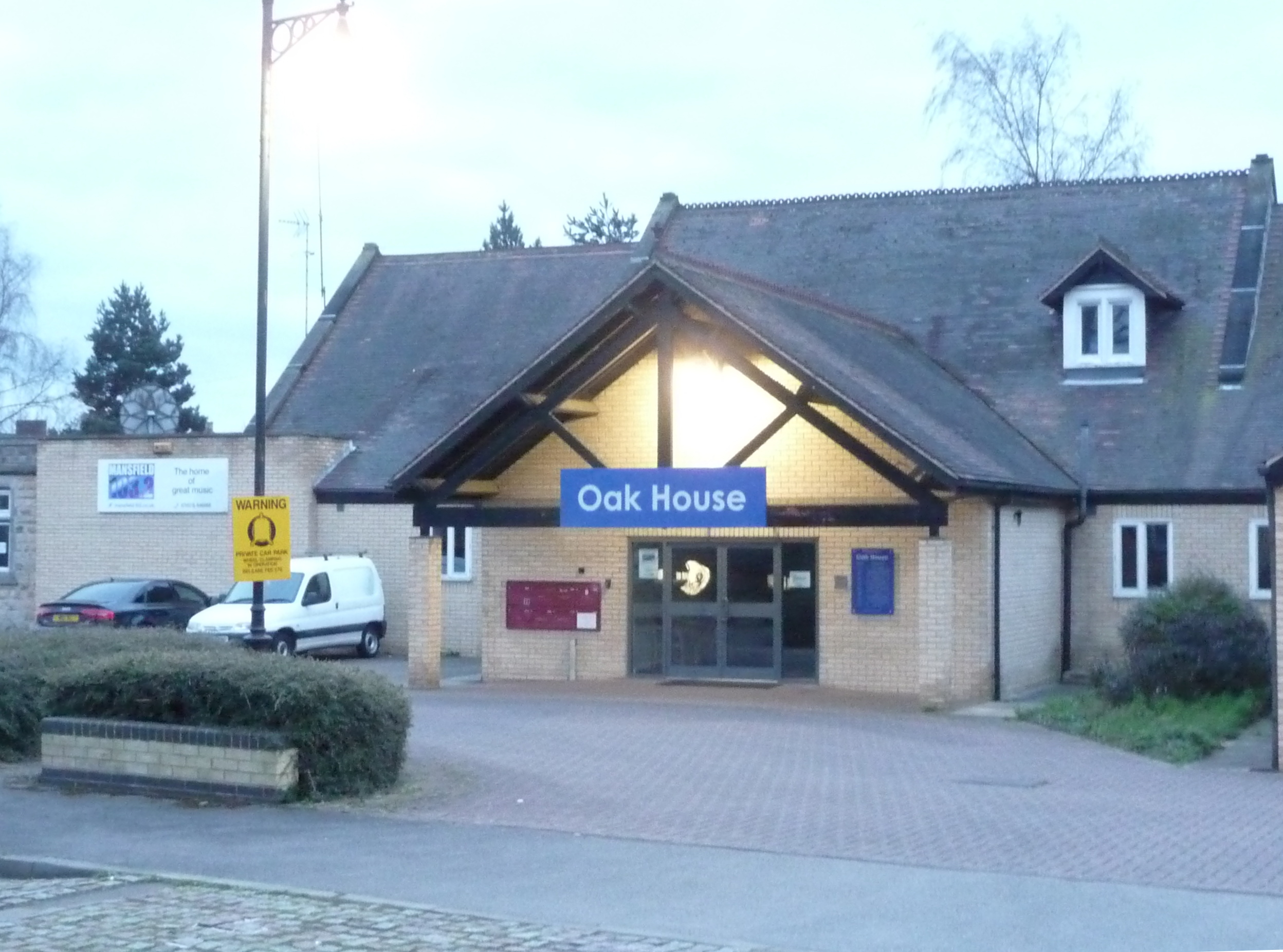 Mansfield 103.2 radio studio within Brunts old school buildings, a re-purposing of small business units and larger new builds in the school grounds after pupils were transferred to a newby newer facility